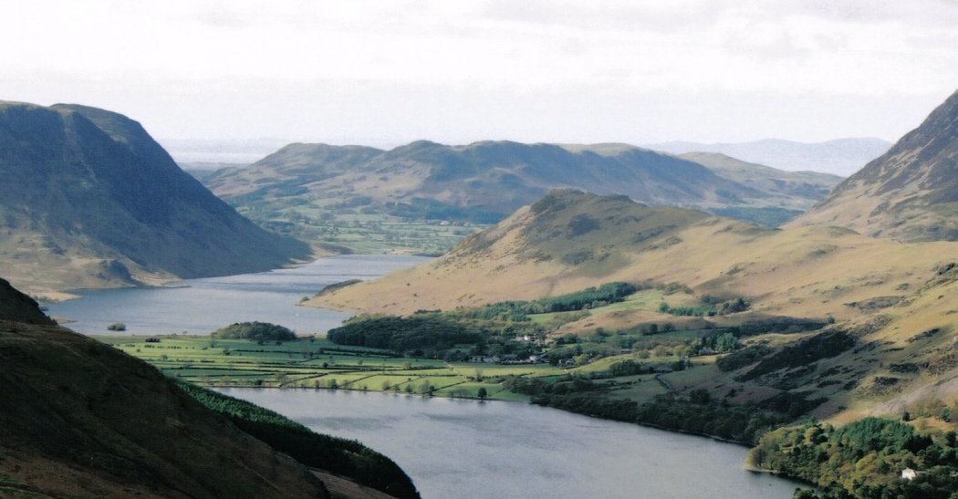 View of Rannerdale Knotts (centre right) from Haystacks . Rannerdale Knotts is a fell in the Lake District of Cumbria, England. I am the author of this photograph and release it into the public domain